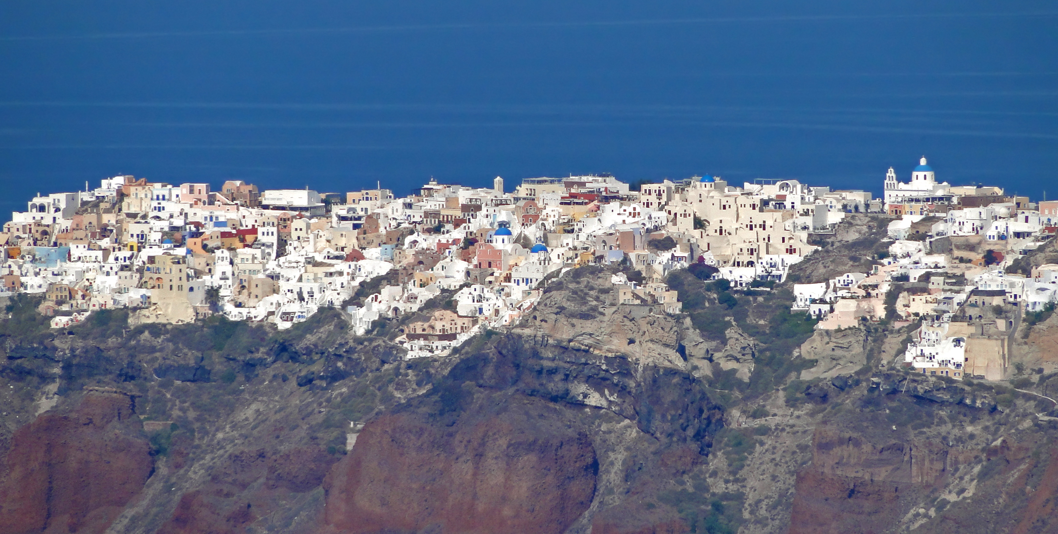 The village of Oia seen from Imerovigli, Santorini, Greece